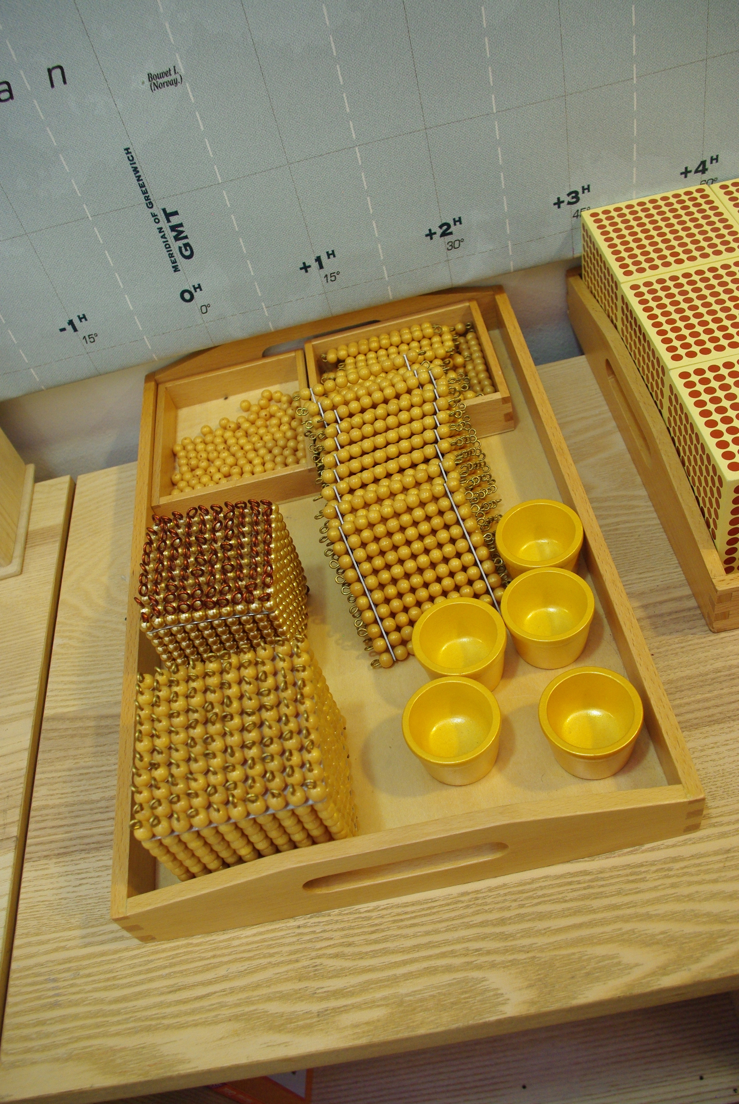 Montessori Material (golden beads)